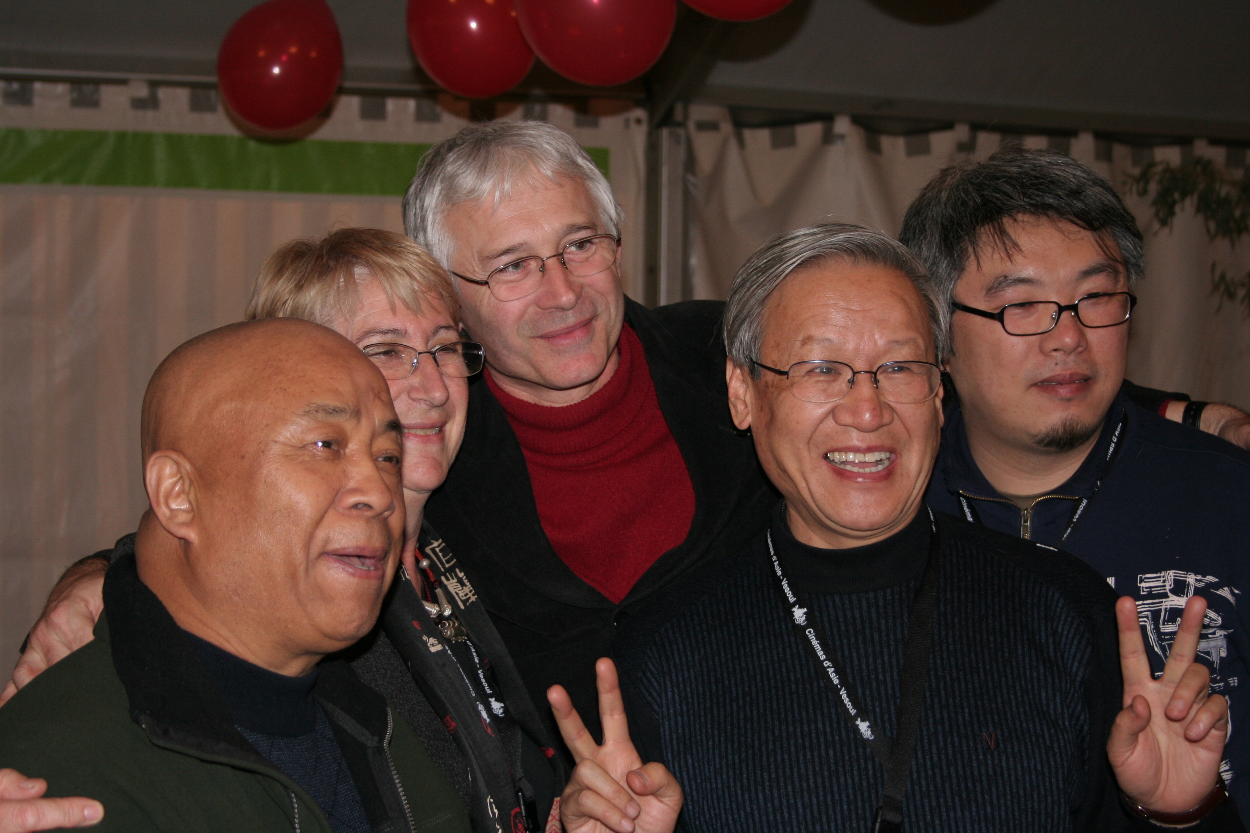 Wu Tianming, Martine and Jean-Marc Thérouanne, Xie Fei, Sheng Zhimin at international asian movies festival in Vesoul